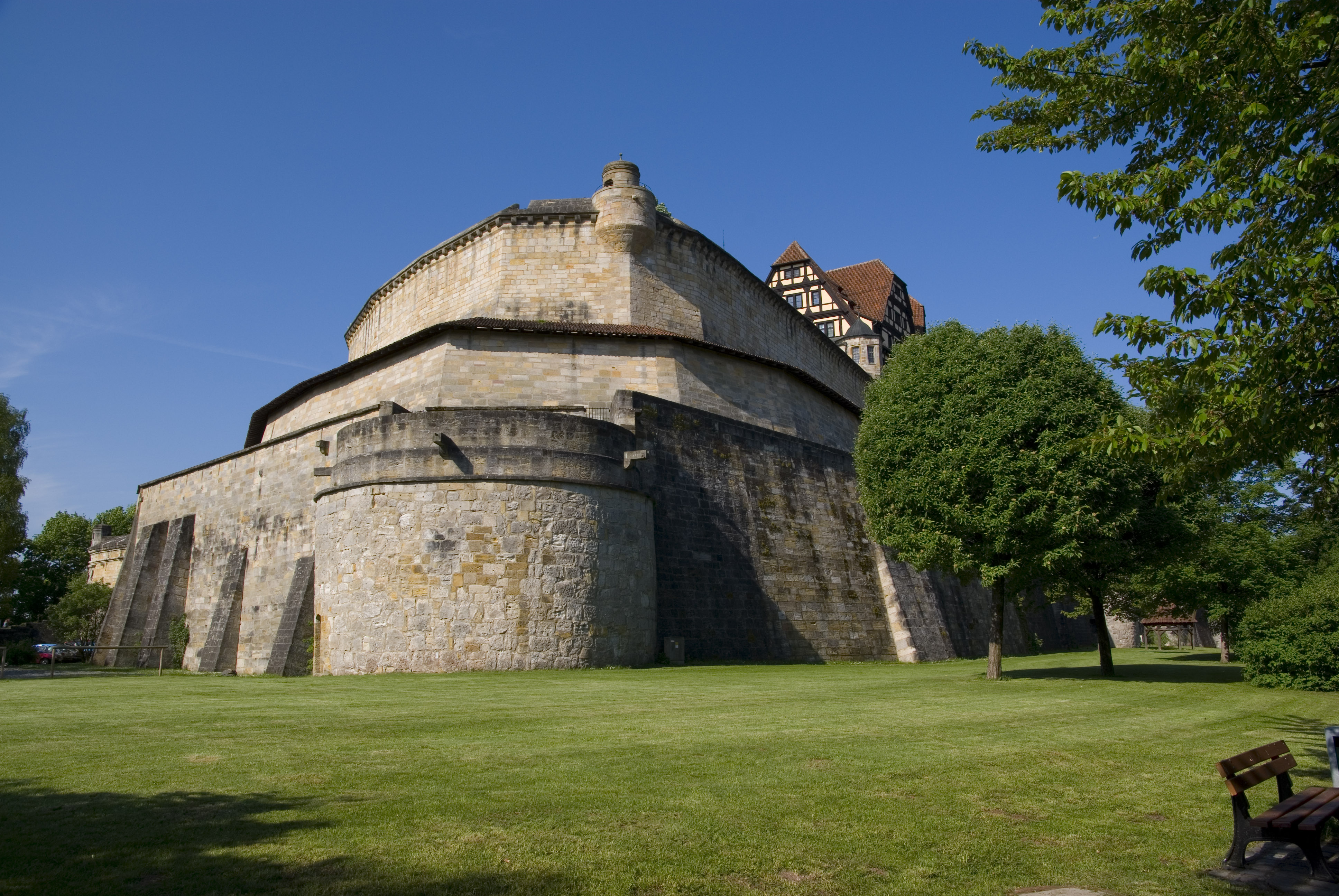 The castle Veste Coburg in Germany.